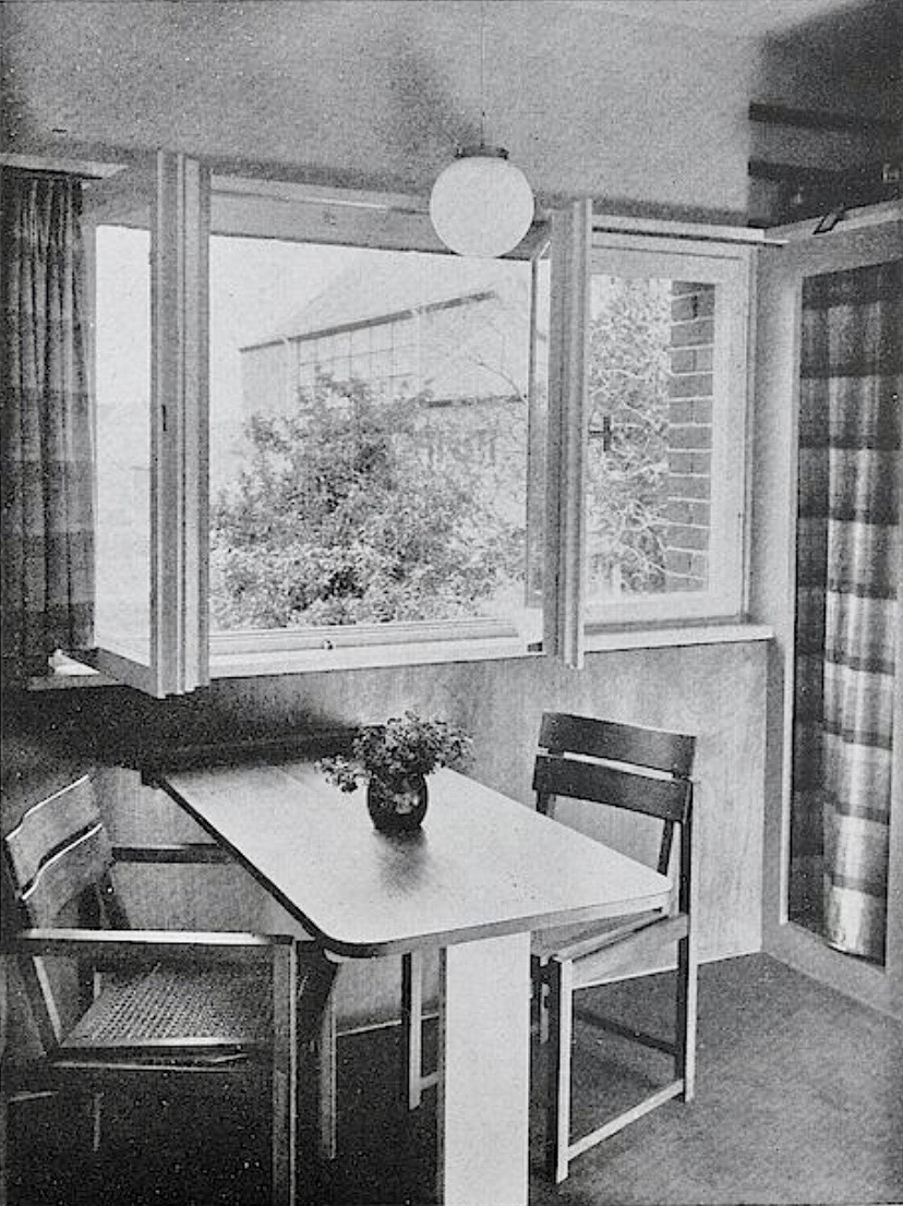 A student's living room of Musikheim in Frankfurt an der Oder, Germany, planned by architect Otto Bartning (1878–1959) and performed by furniture designer Erich Dieckmann (1896–1944). The lamps were designed by Wilhelm Wagenfeld (1900–1990).